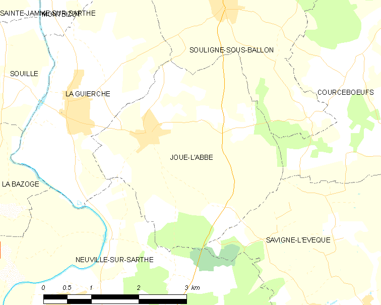 Map of French municipality